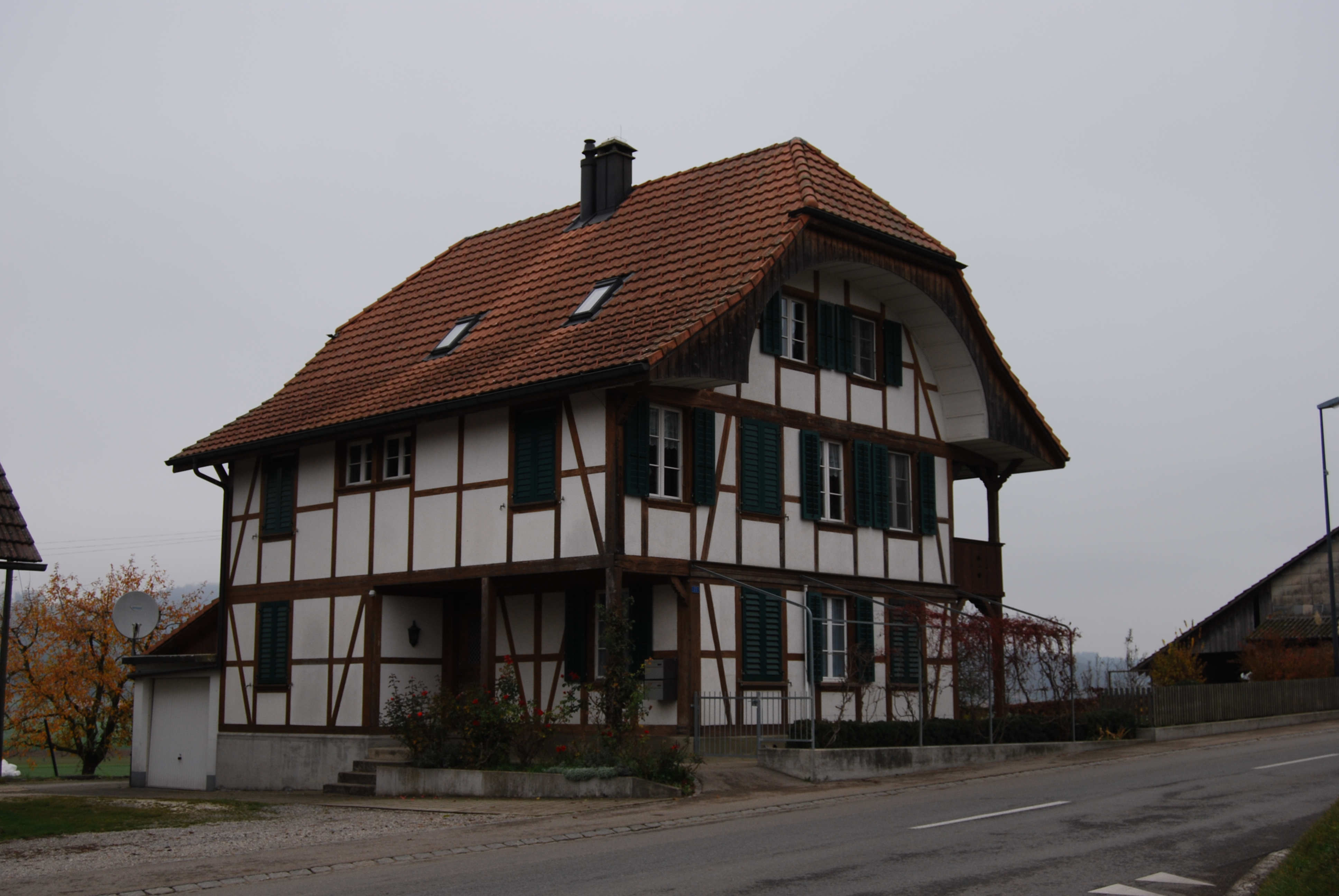 Timber framing house at Mülchi, canton of Bern, Switzerland